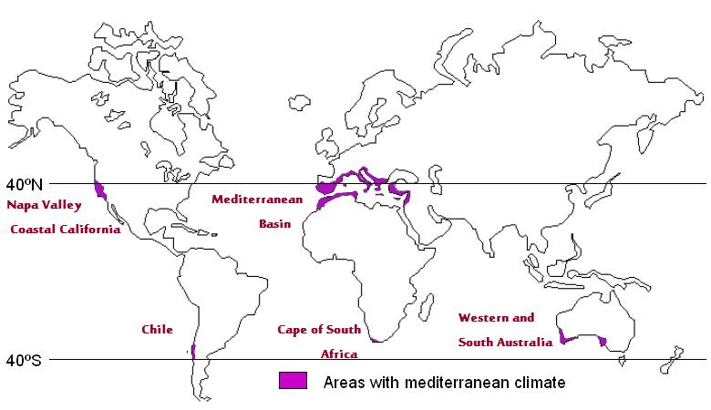 English language description of the wine regions with Mediterranean climates based on image:Medclim.png